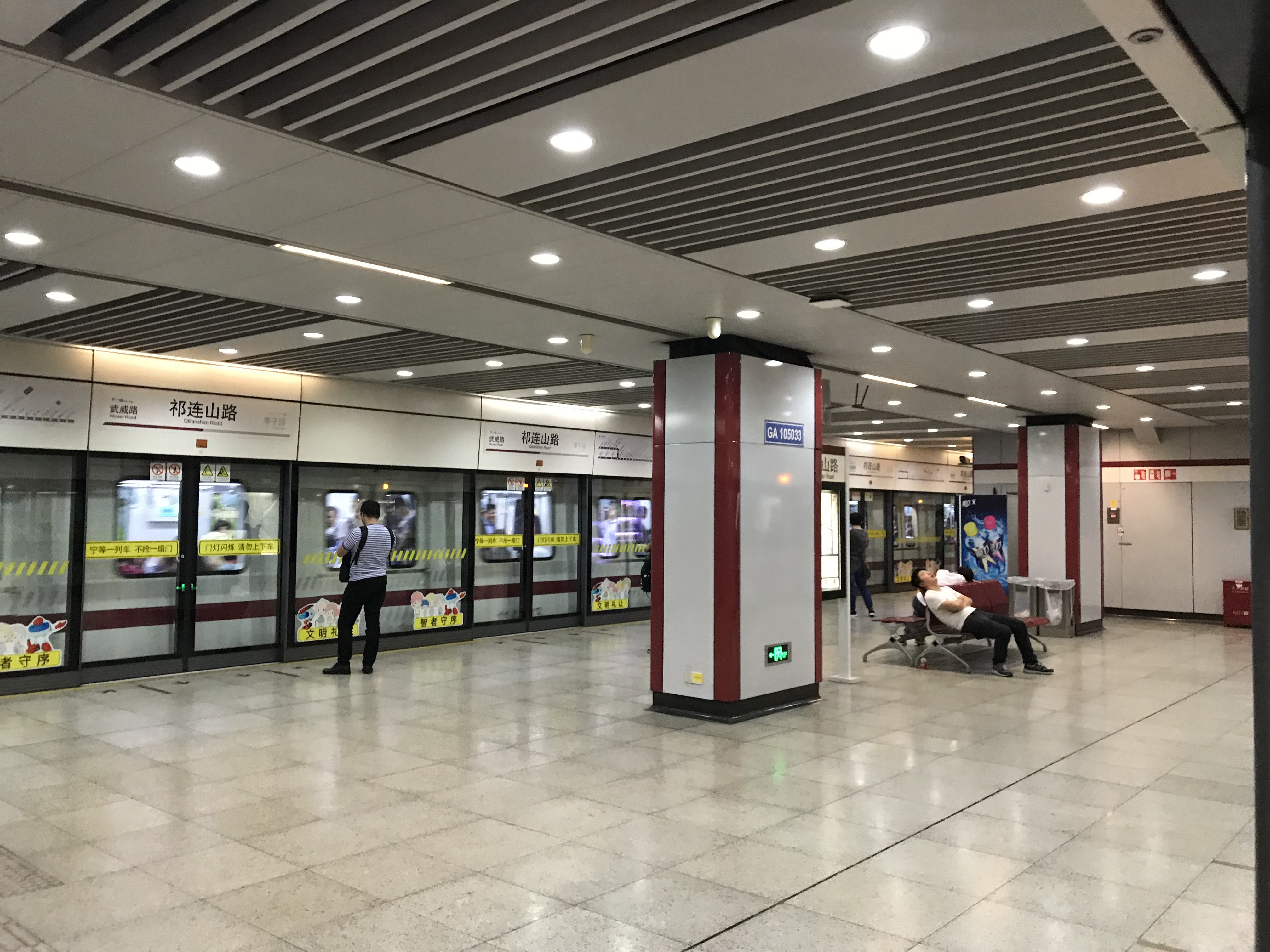 201805 Qilianshan Road Station